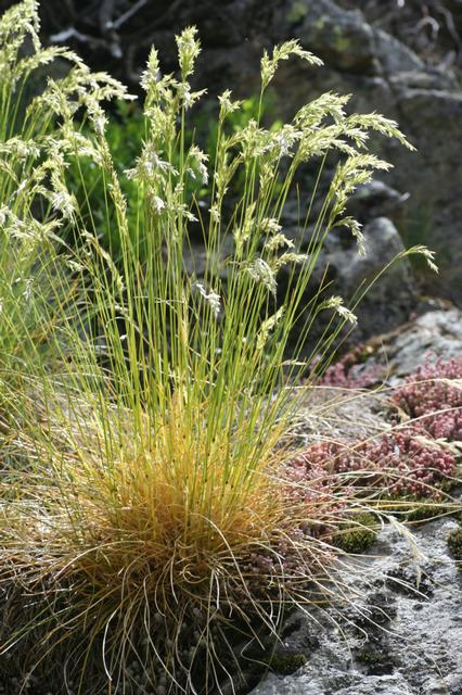 (en) Festuca eskia, a photography originating of the internet site The accord of the autor, H. Brisse, is here. (fr) Festuca eskia, une photographie issue du site internet L'accord de l'auteur, H. Brisse, se situe ici.